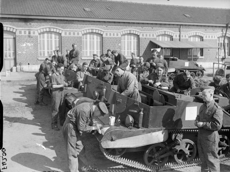 The British Army in France 1940 The 1st Battalion Duke of Wellington's Regiment, 1st Division, working on their Bren gun carriers at Ston de Bachy, 2 May 1940. Some of the men are painting formation signs on the vehicles.